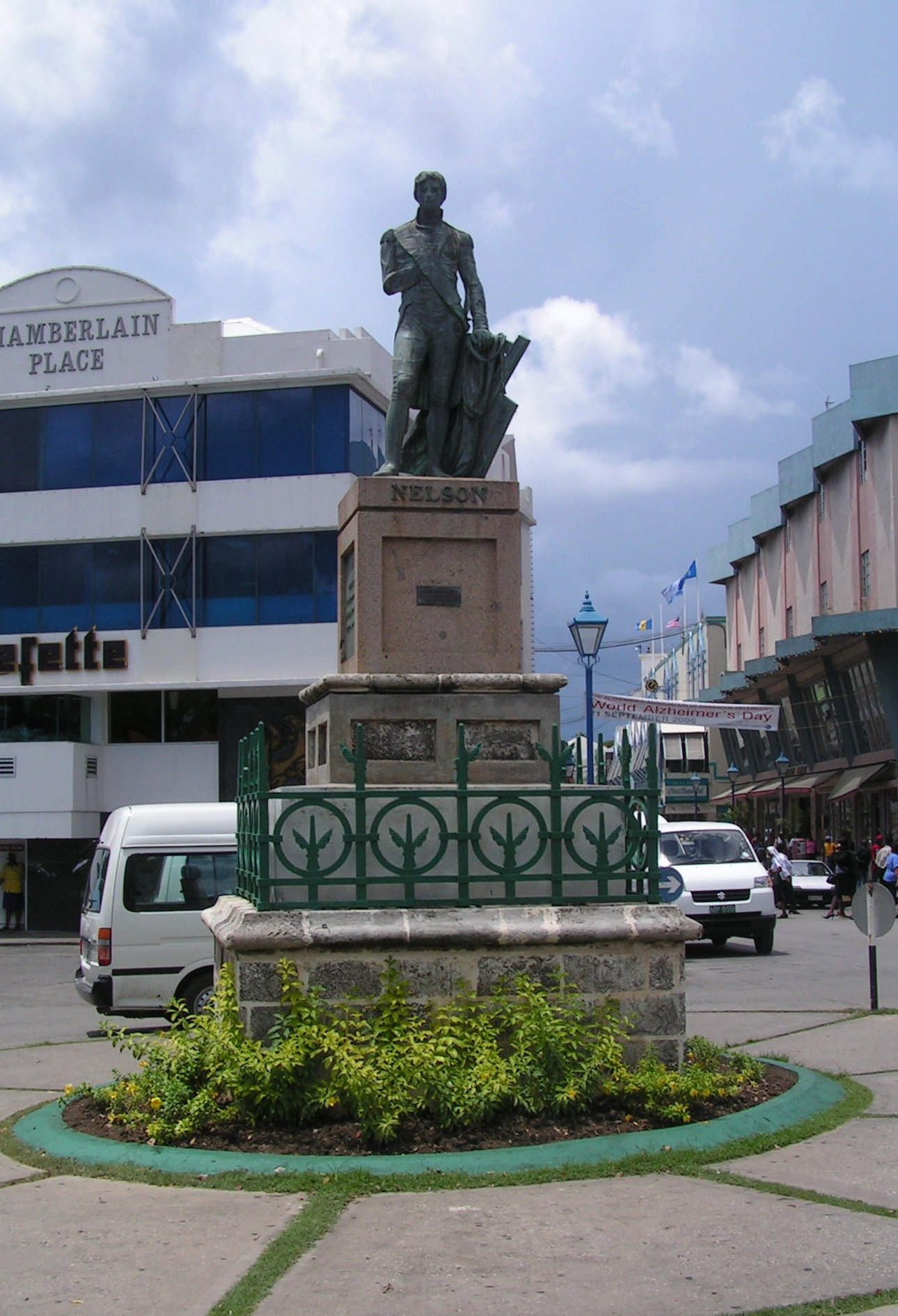 Nelson statue on Trafalgar Square in Bridgetown, Barbados